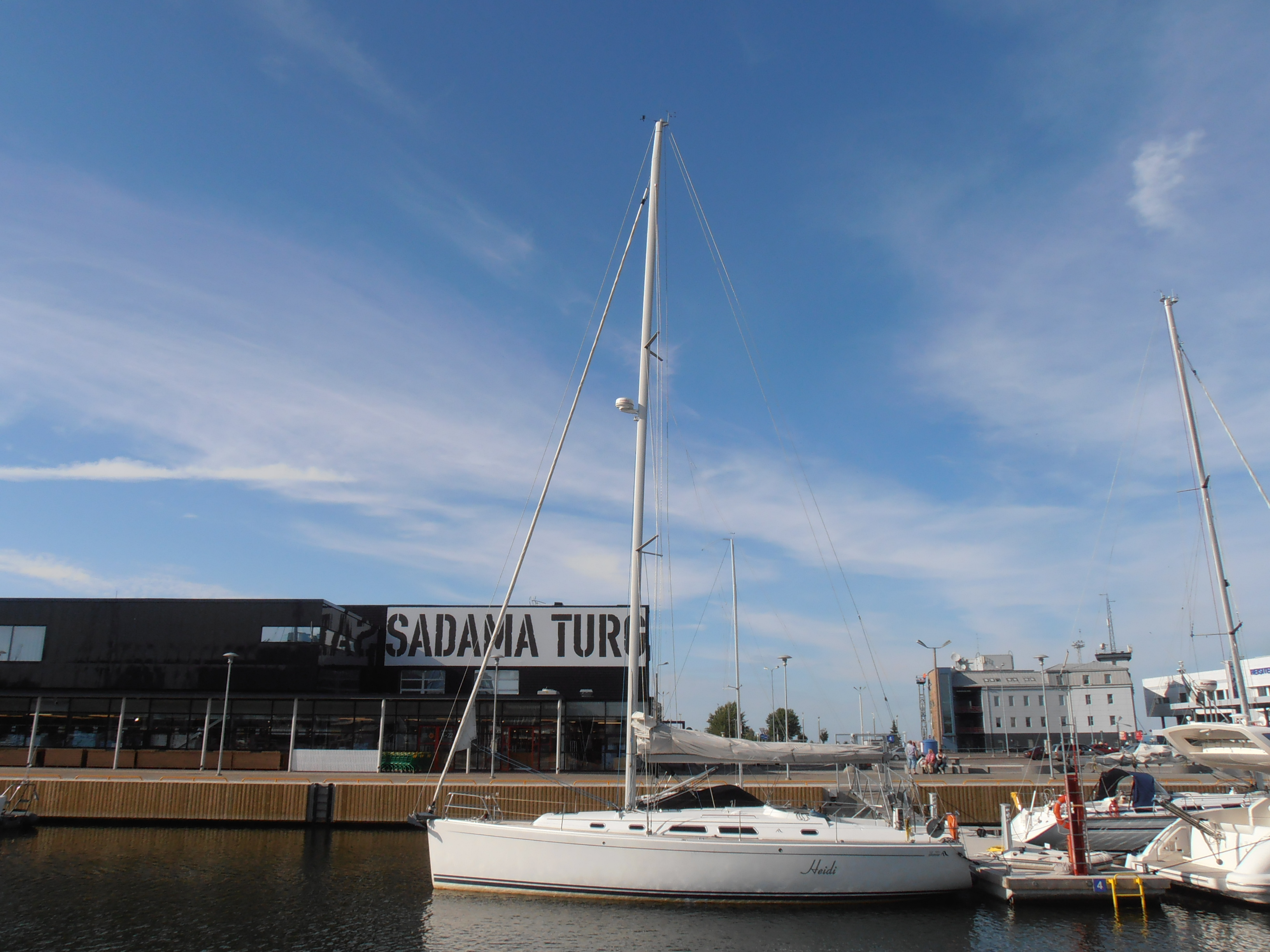 EST 567 Heidi at pier, Old City Marina Tallinn 21 August 2012